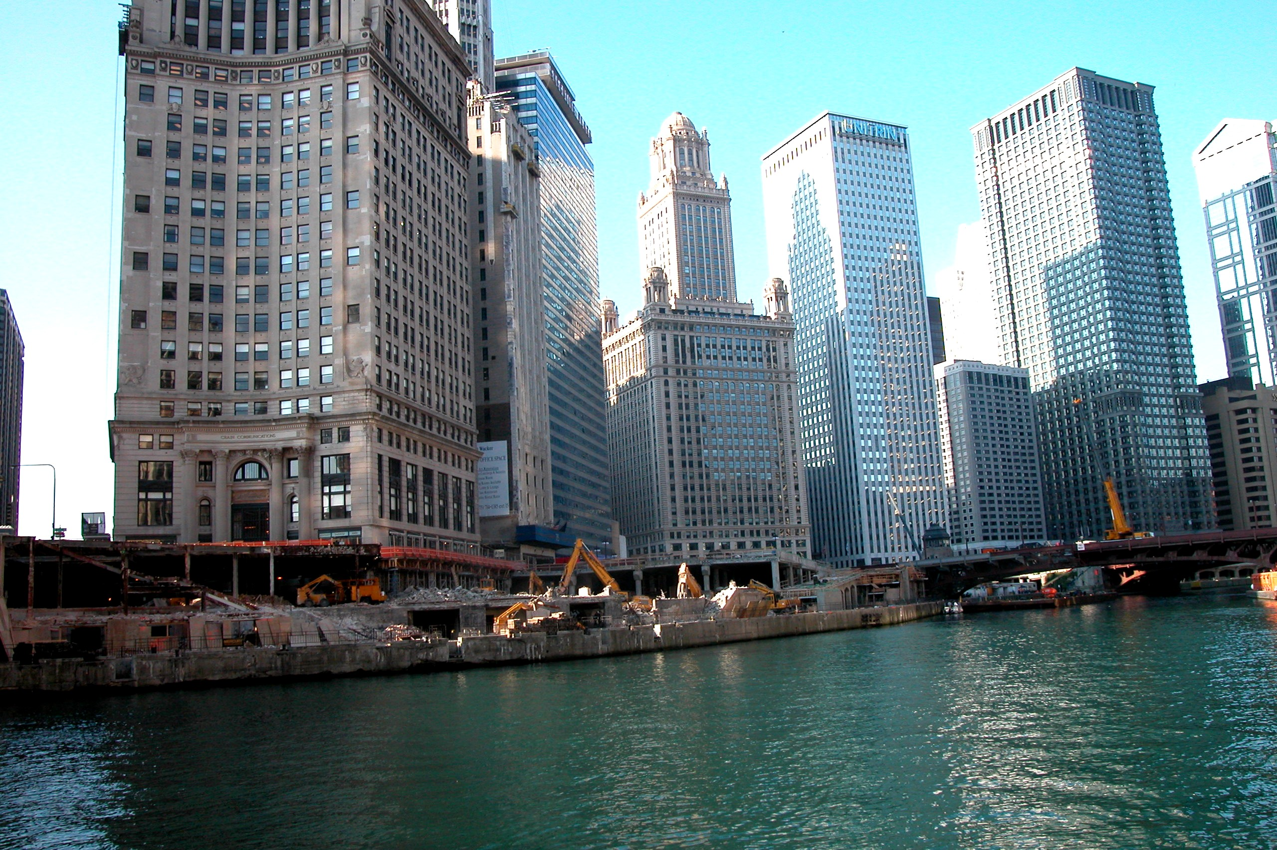 20020829 05 Chicago River @ Michigan Ave. Chicago